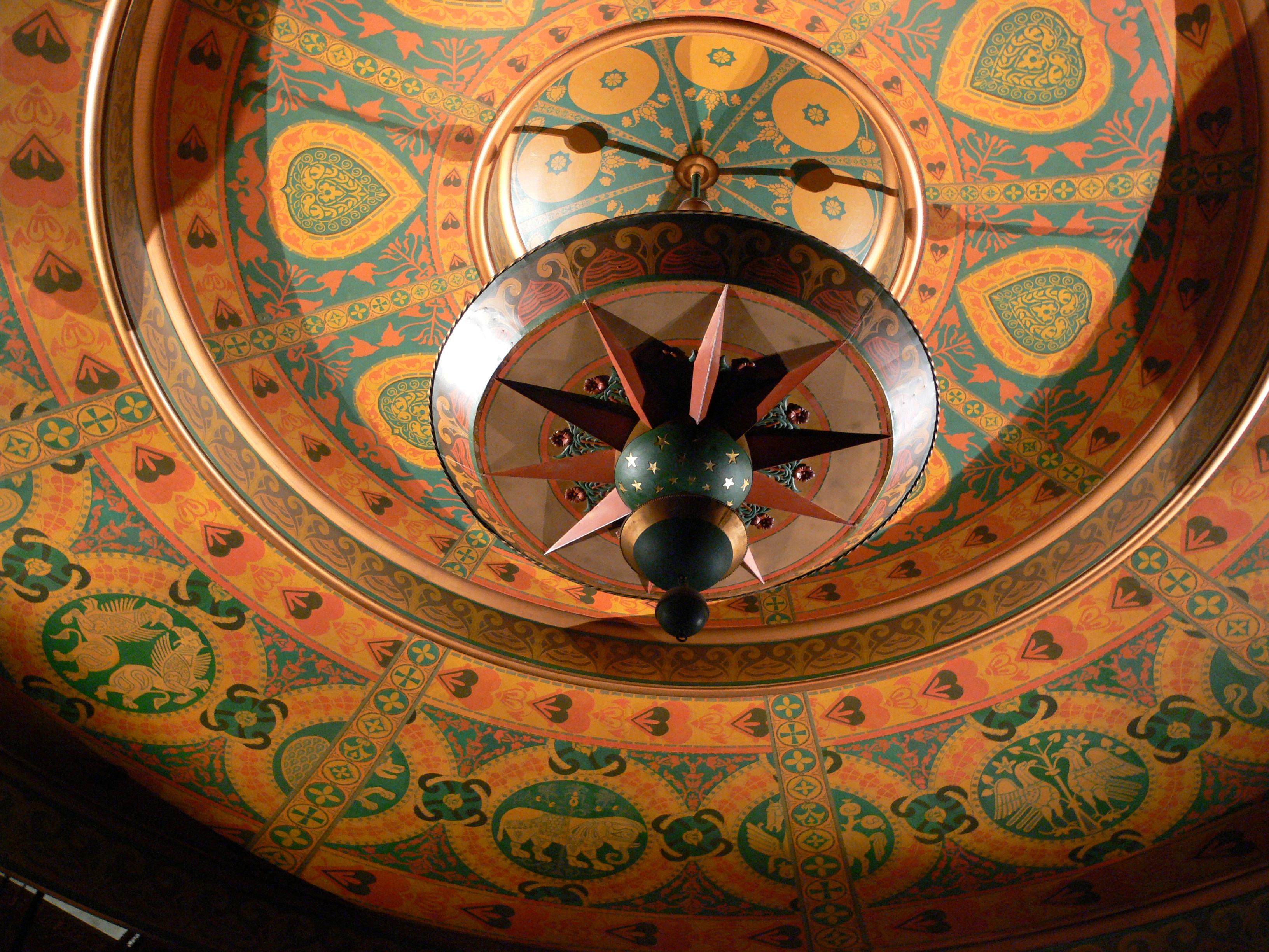 Al Hirschfeld Theatre, auditorium ceiling 302 West 45th Street, Manhattan, New York City